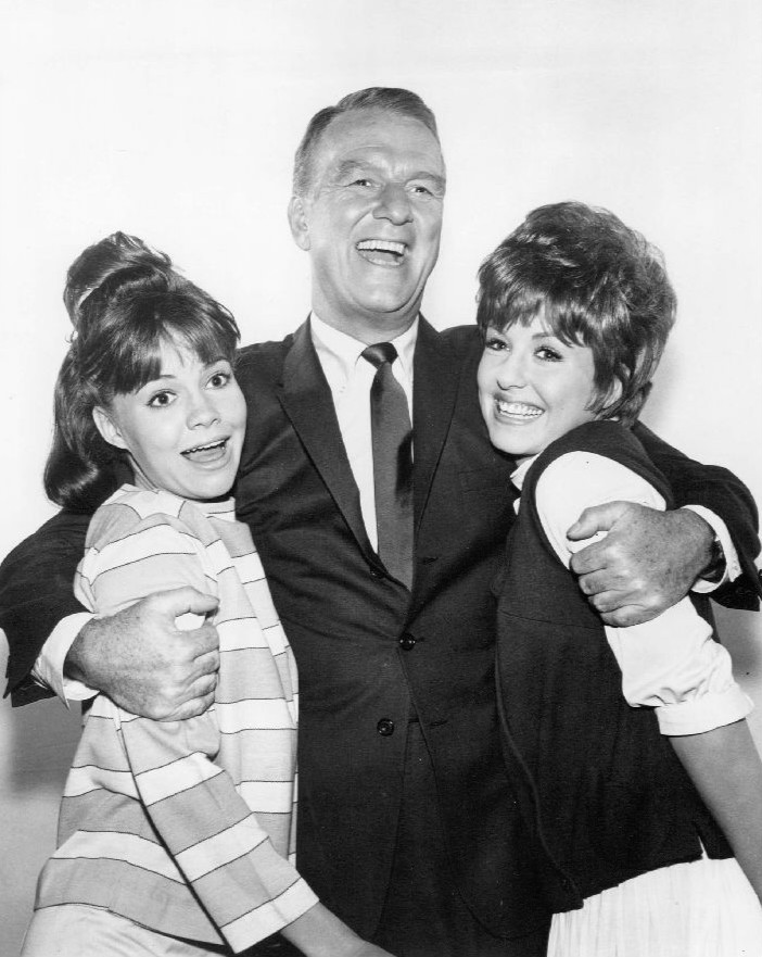 Photo of Sally Field (Gidget), Don Porter (her father, Russell Lawrence) and Betty Conner (her sister, Anne Lawrence Cooper), from the television series Gidget.